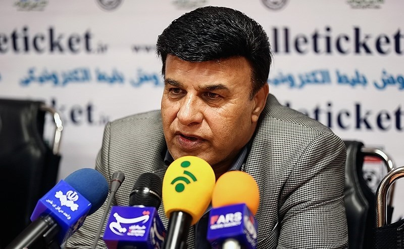 Parviz Mazloumi